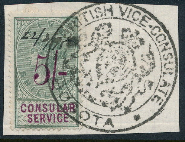 British consular revenue stamp used Bogota, Colombia, c. 1895.